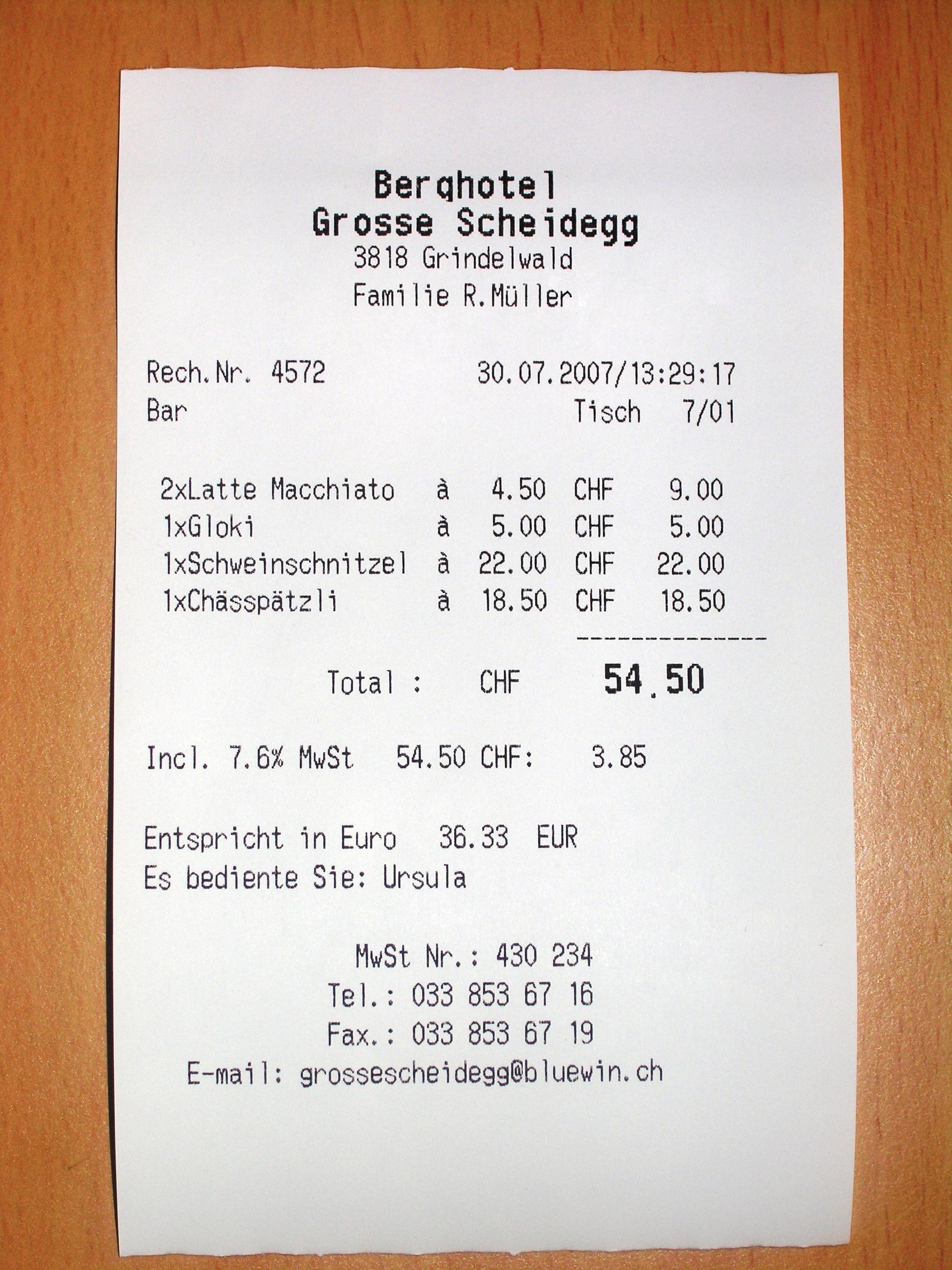 A receipt, obtained in Swiss mountain restaurant on the top of the Grosse Scheidegg. Includes the list of meals with prices, table number (7/01), total price information in two currences (swiss francs and euro), note about the 7.6 % tax, contact information, including the tax registration number of the company and name of the cashier (Ursula).